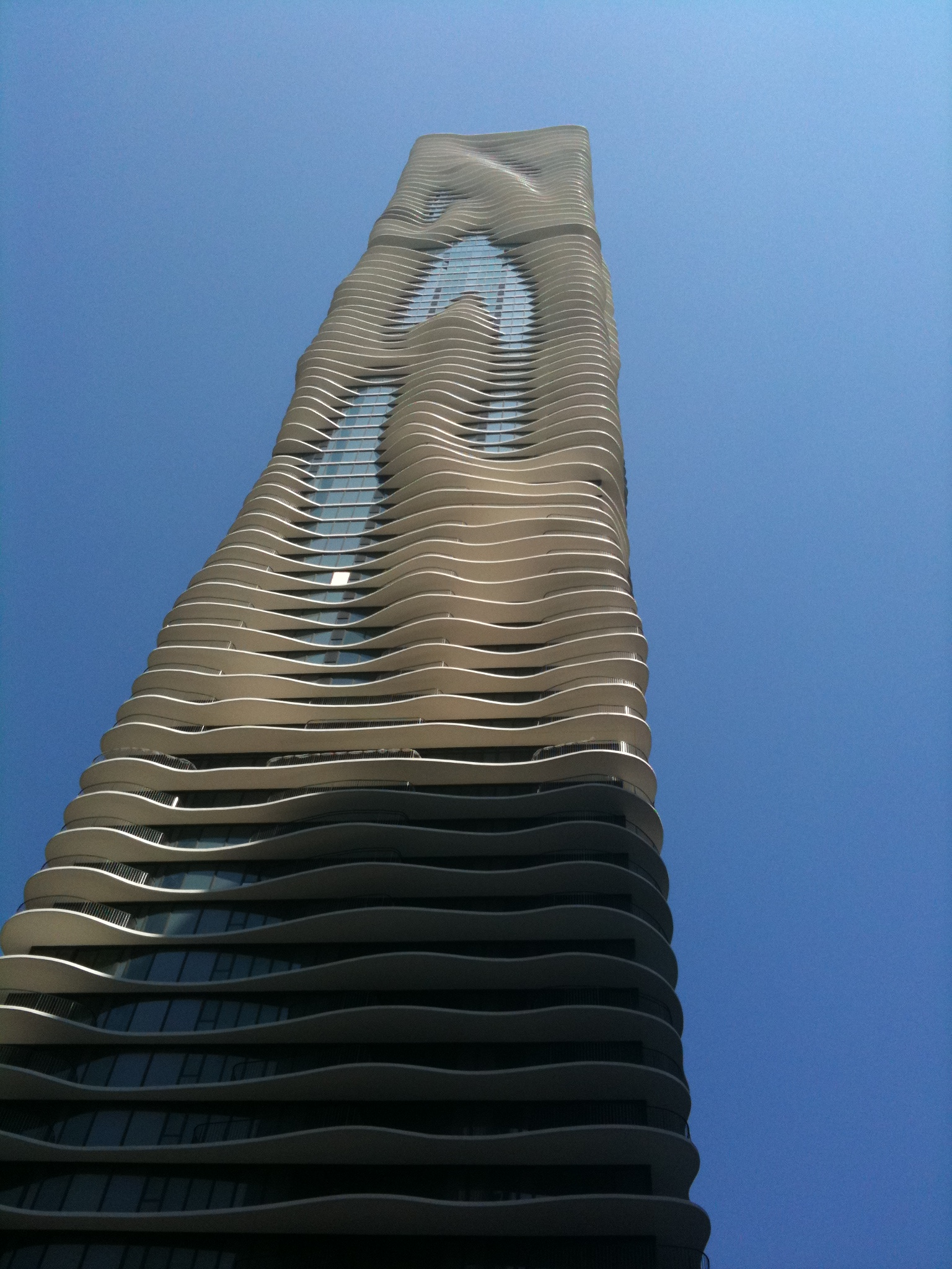 Western facade of Aqua in Chicago.